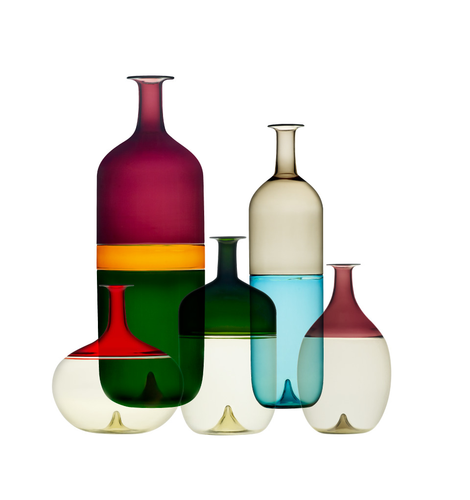 Tapio Wirkkala`s bottles for Venetian manufacturer Venini